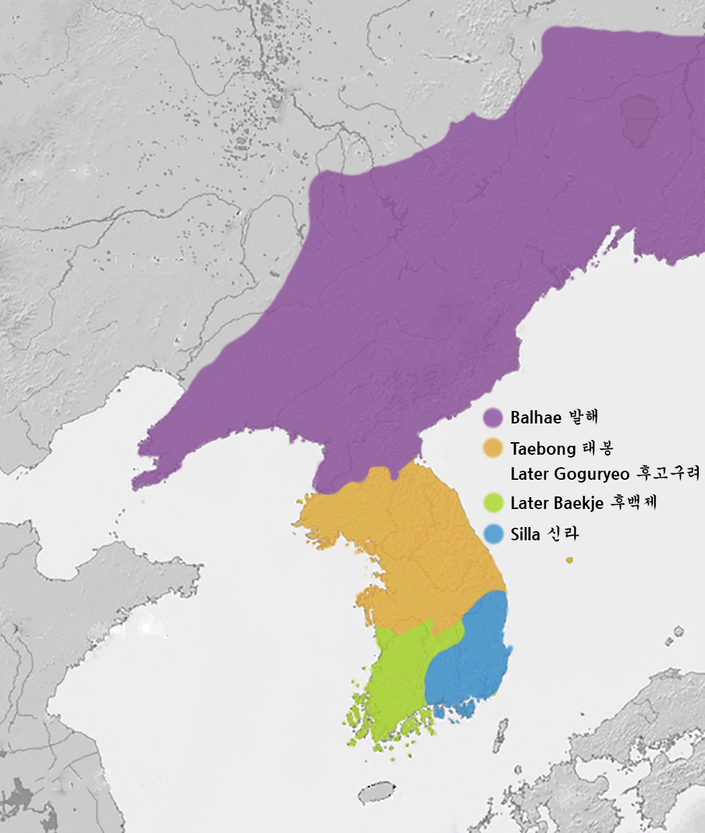 915 years of the Later four Kingdoms period.